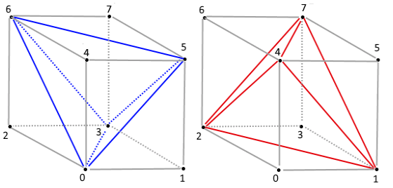 Visual demonstration of opposite inner tetrahedra